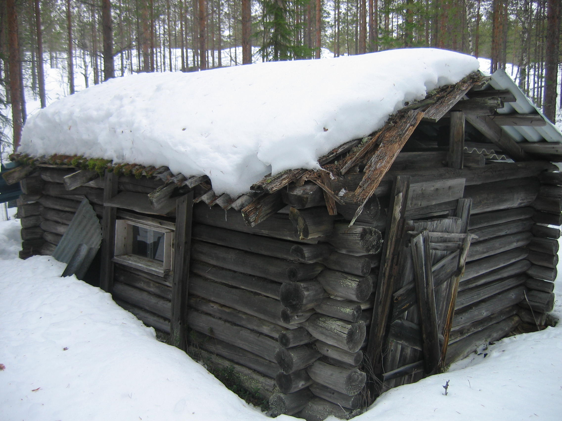 An old hunting hut in Sanginkylä's Lamminvaara, Utajärvi, Finland.